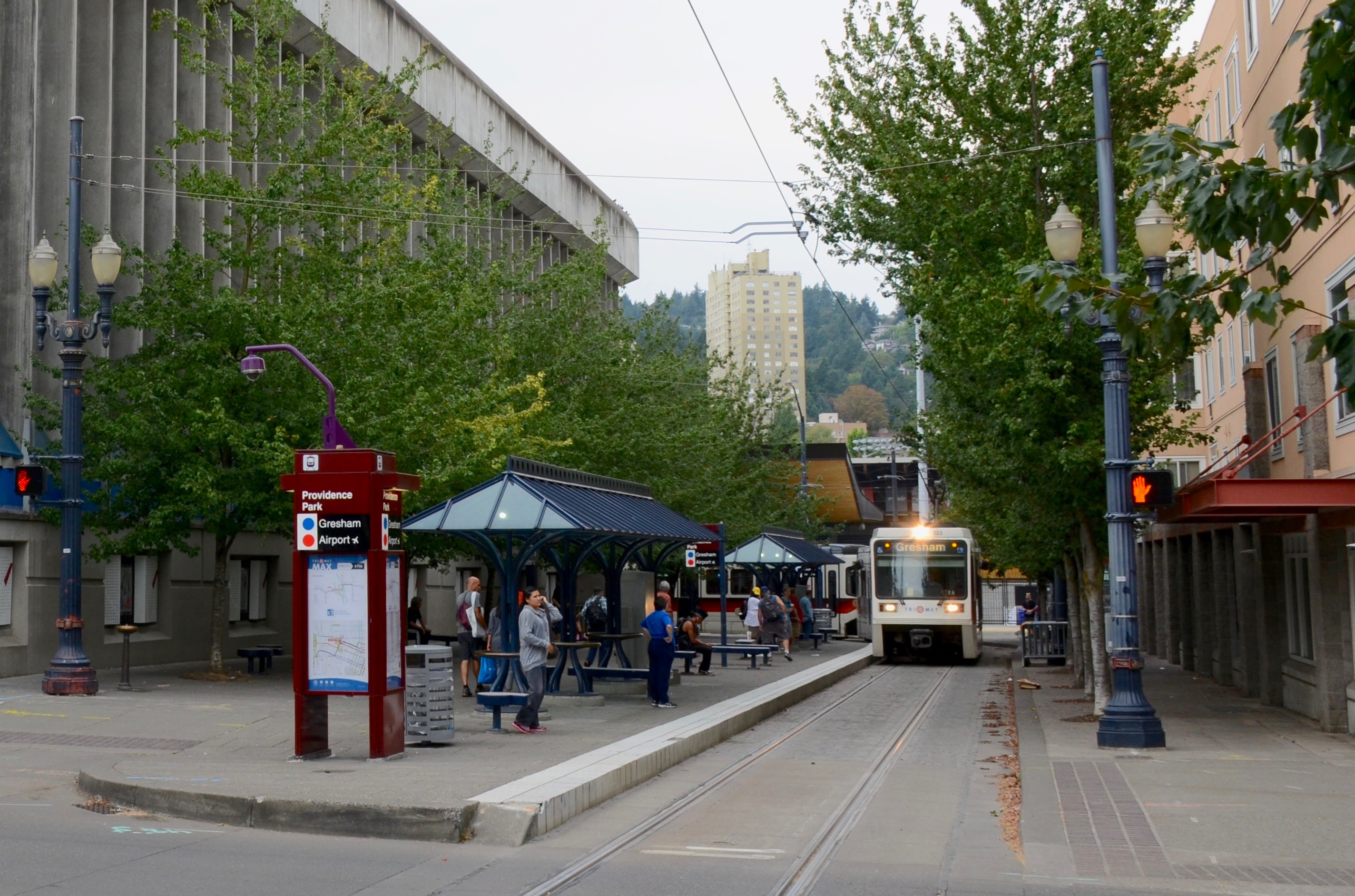 The eastbound platform (on SW Yamhill Street) of TriMet's Providence Park MAX station, viewed from the east, from 17th Avenue. A train led by car 223 (coupled to a Type 1 car) is arriving. The station opened in 1997 as Civic Stadium station and has carried two other names in the meantime, during periods when the stadium after which it is named had a different name (PGE Park, then Jeld-Wen Field). In the lefthand background is the one of the buildings comprising the longtime printing plant of The Oregonian, which at the time of the photo (August 2, 2015) had either recently closed permanently, or was in the process of closing permanently, the paper's owners having outsourced their printing.